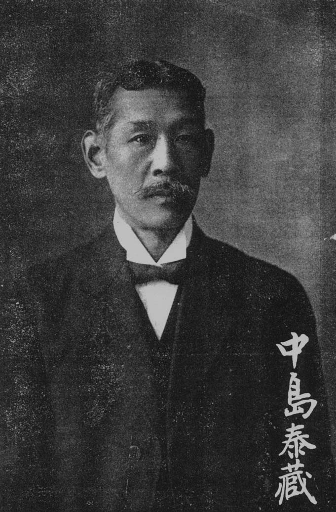 Late Mr. Taizō Nakashima.